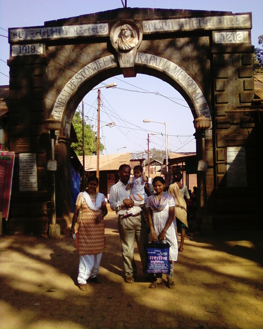 Ratanbai Pestonji Kapadia market, Matheran, built in 1919.